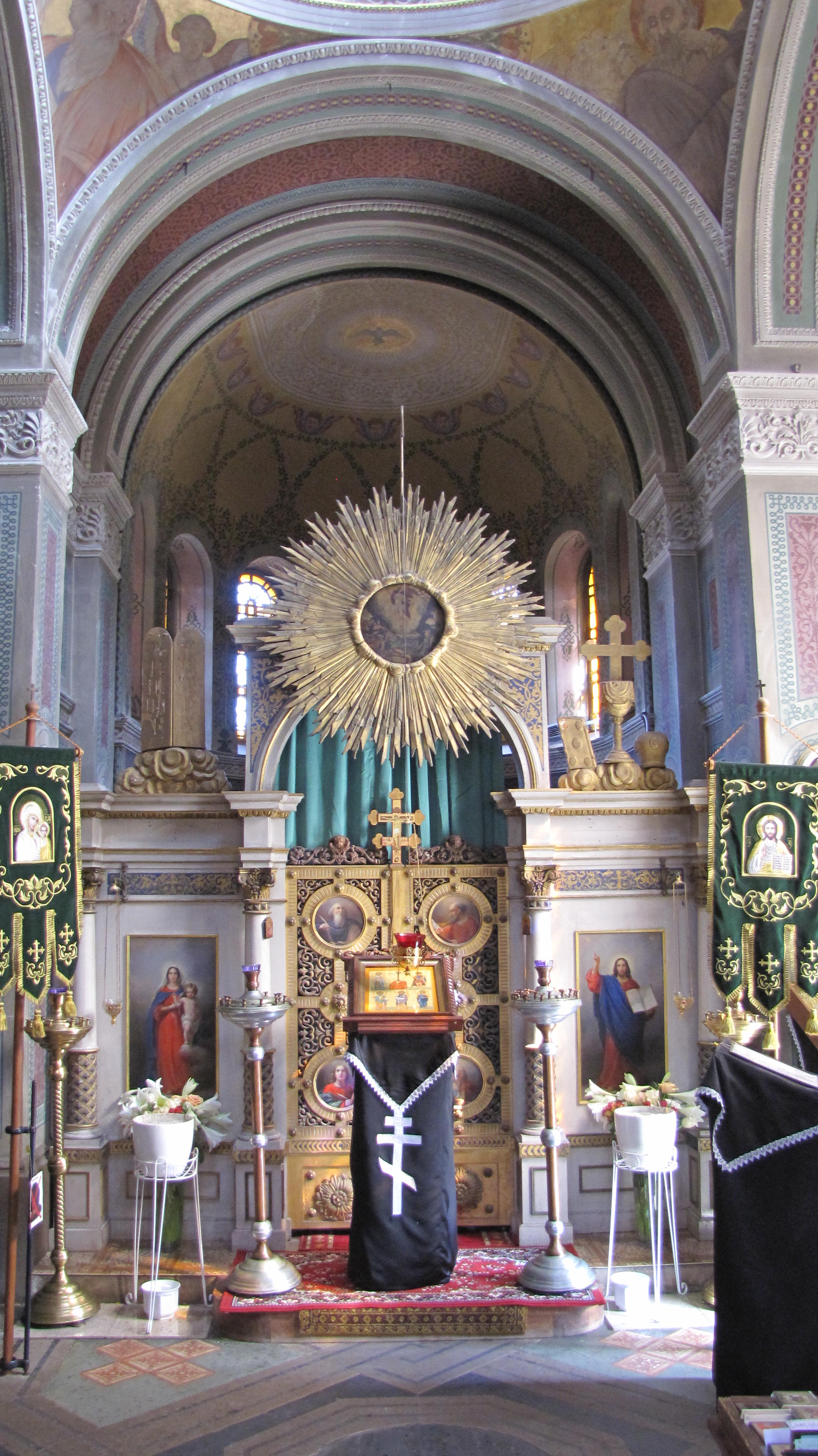 Interior of Russian Church, Historical cemetery Weimar